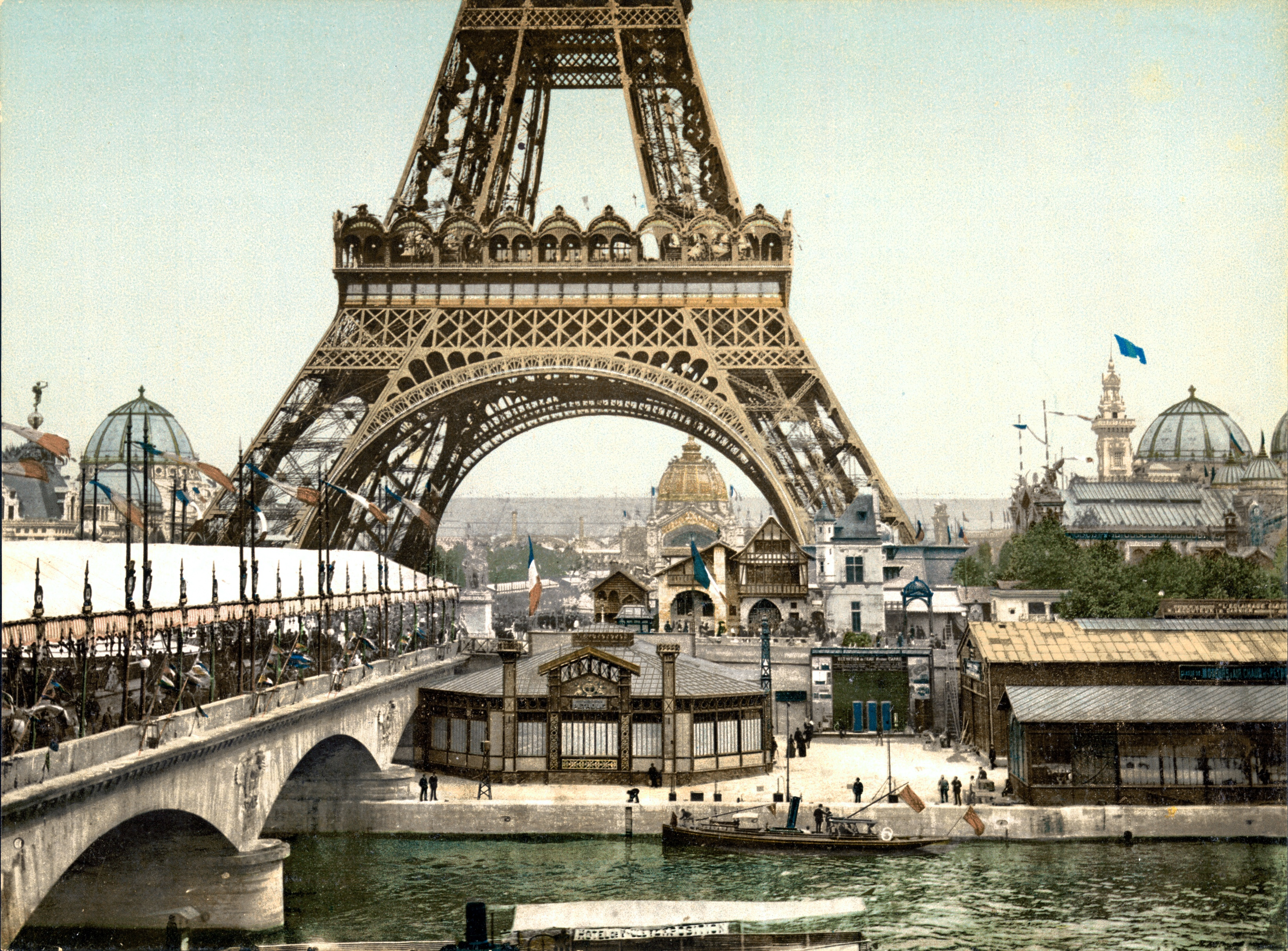 Eiffel Tower and general view of the grounds, Exposition Universal, 1889, Paris, France